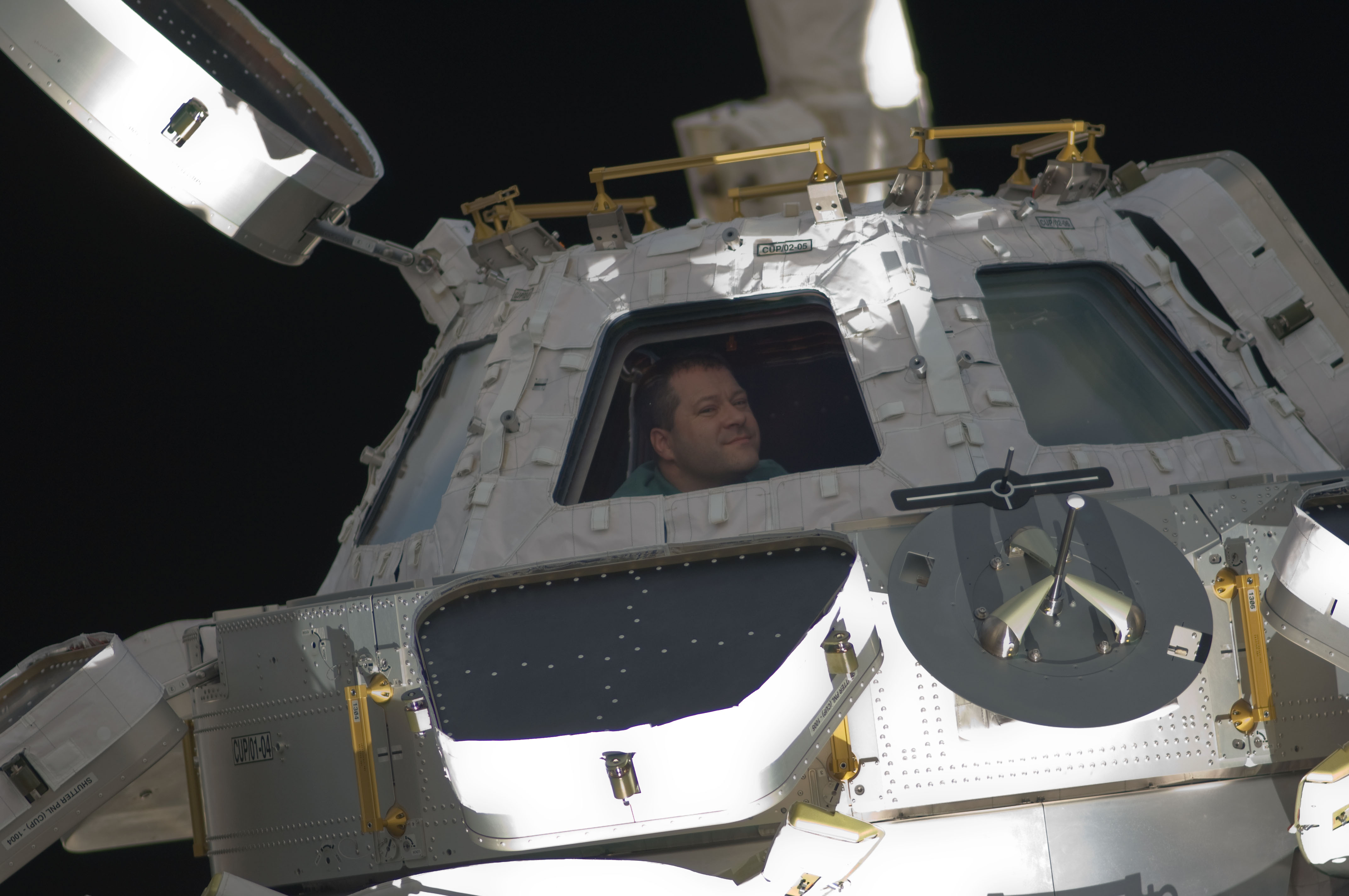 NASA astronaut Nicholas Patrick, STS-130 mission specialist, is pictured in a window of the newly-installed Cupola of the International Space Station while space shuttle Endeavour remains docked with the station.